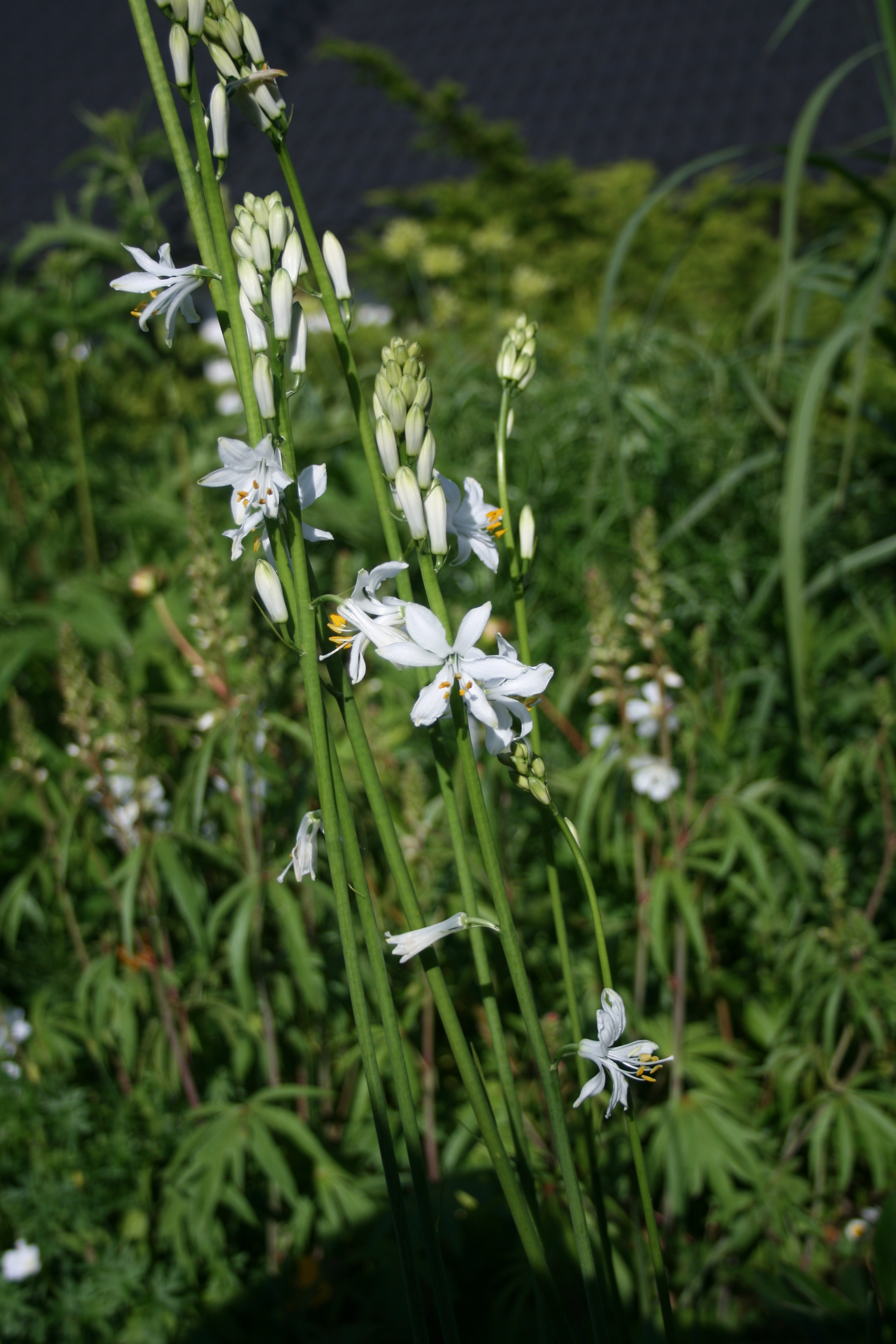 Paradisea lusitanica, cultivated in Sweden